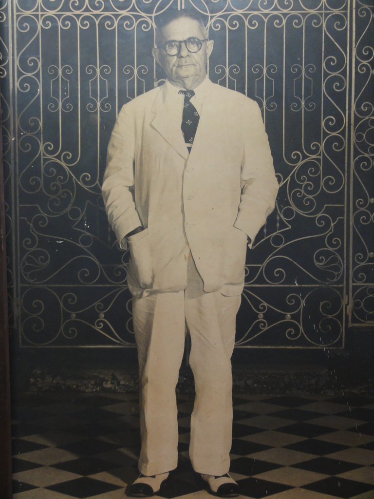 Mayor Grillasca, former mayor of Ponce, PR